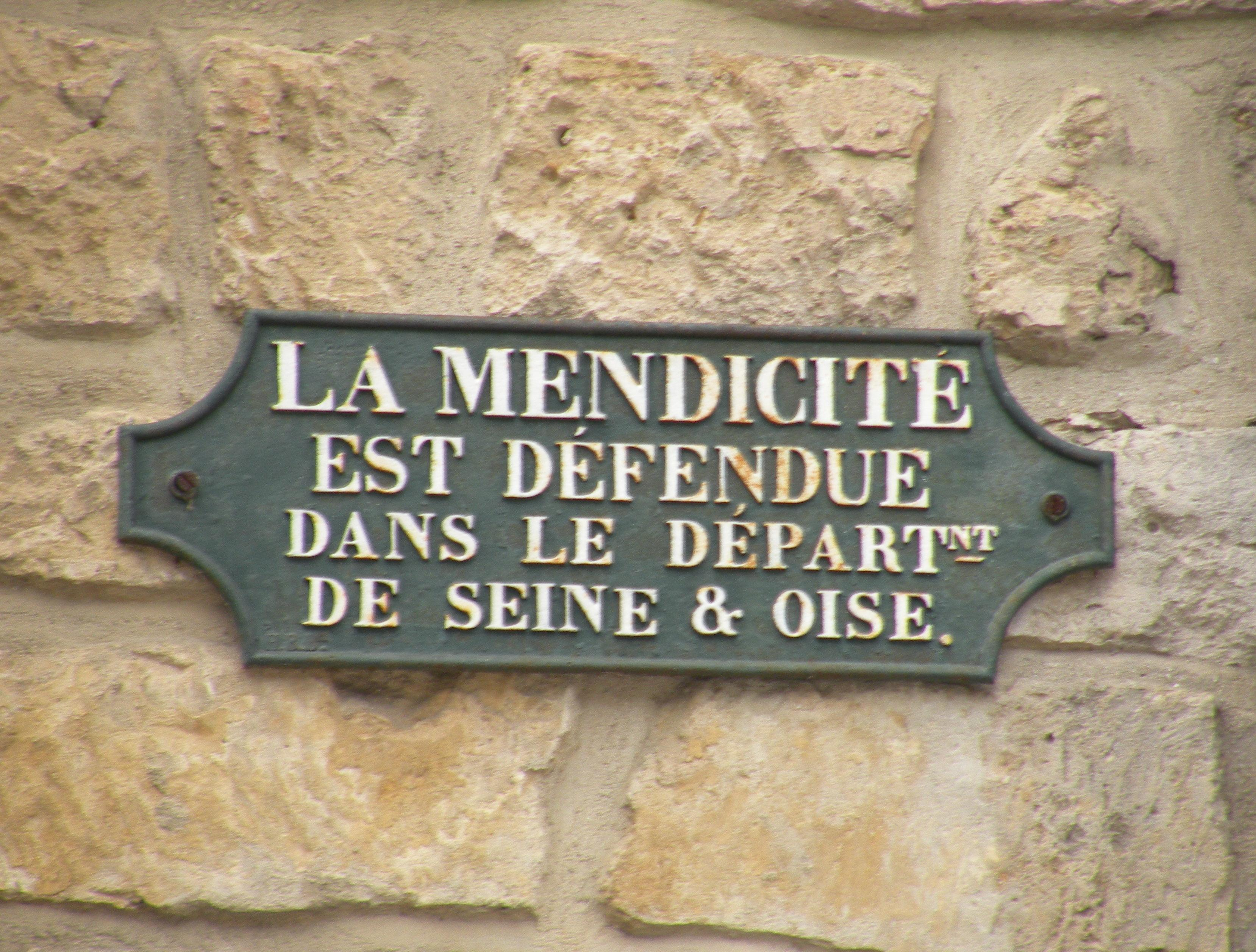 Plaque in Hédouville, old french department of the Seine et Oise, France. The text is Begging is forbidden in the department of the Seine et Oise.